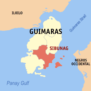 Map of Guimaras showing the location of Sibunag